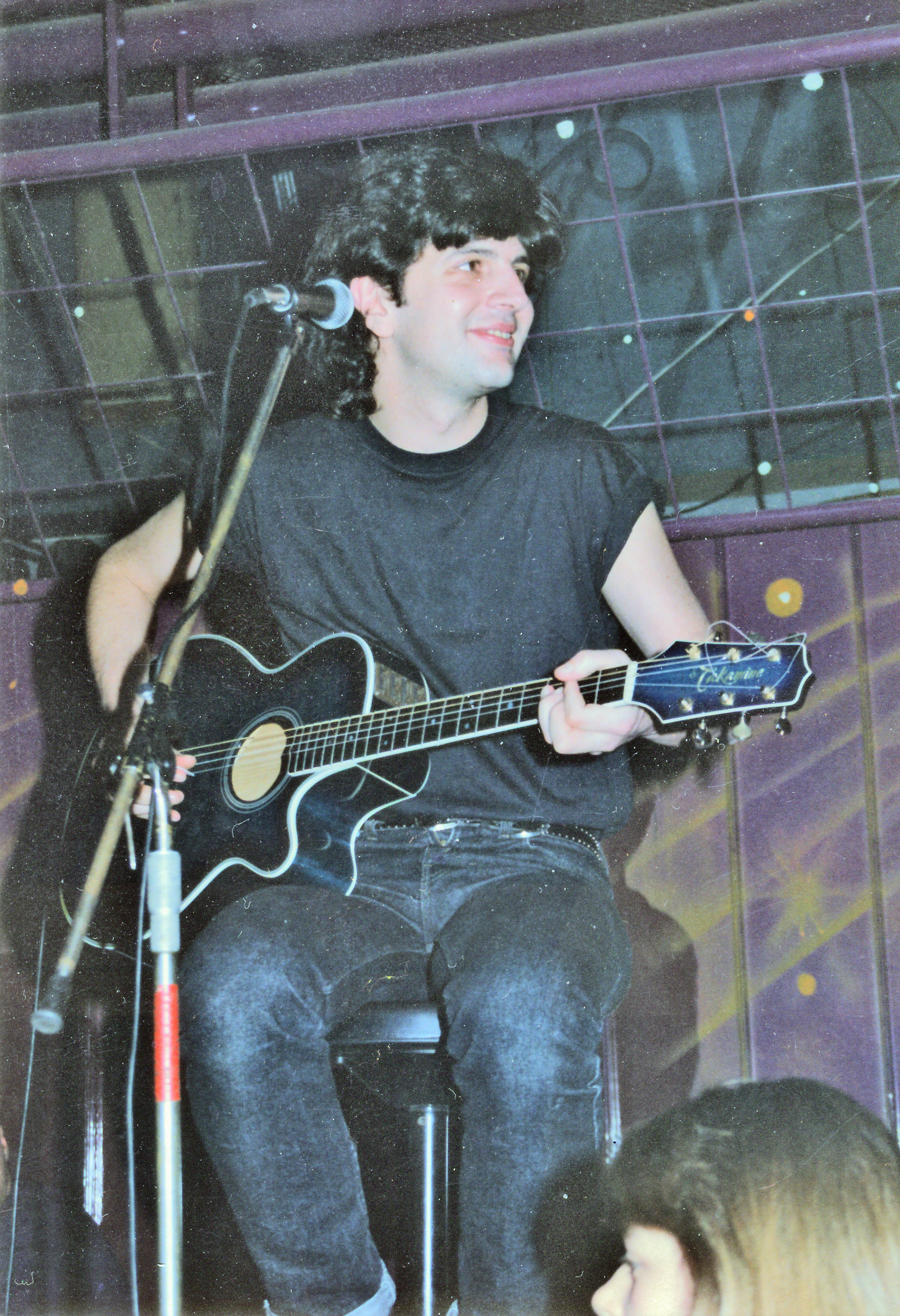 Momčilo Bajagić - Bajaga at a concert in Nis, late 80's